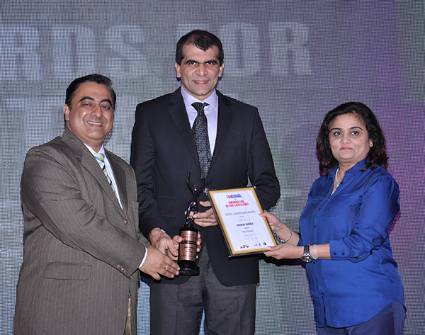 Shoaib Ahmed receiving the award from Economic Times Now Newspaper